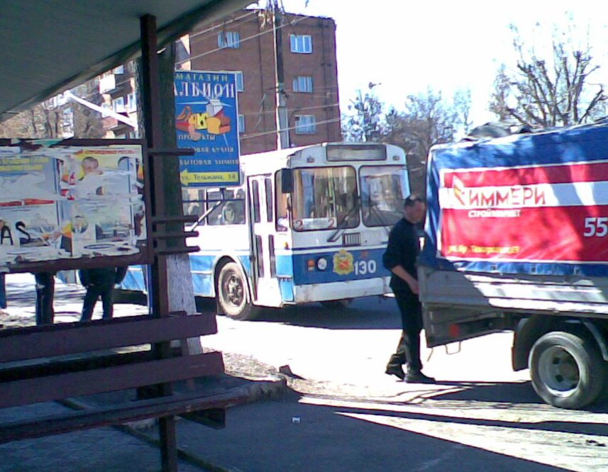 ZiU-9 trolleybus in Vladikavkaz